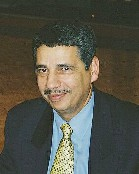 Mohamed Samraoui's photo